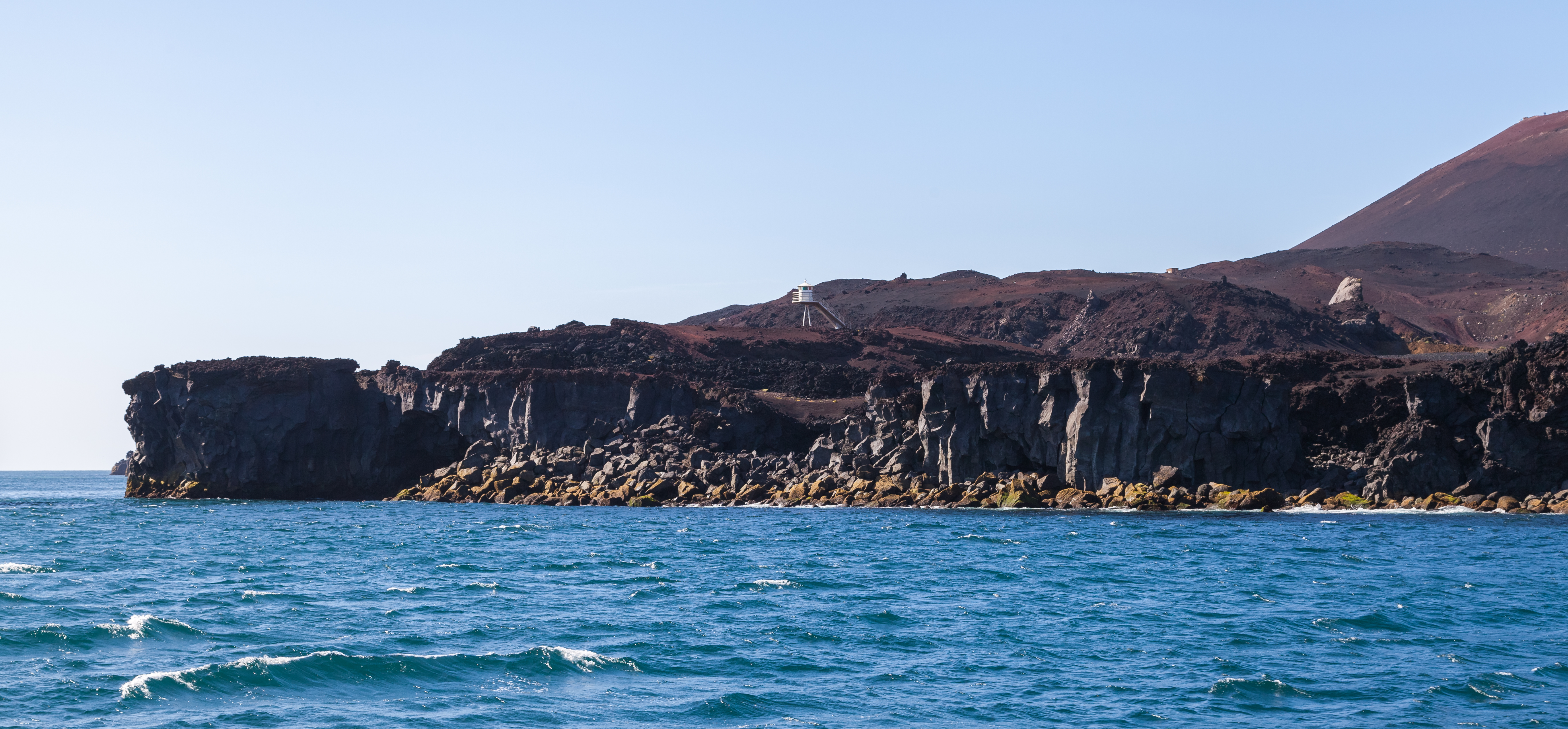 Urða lighthouse, Heimaey, Westman Islands, Suðurland, Iceland